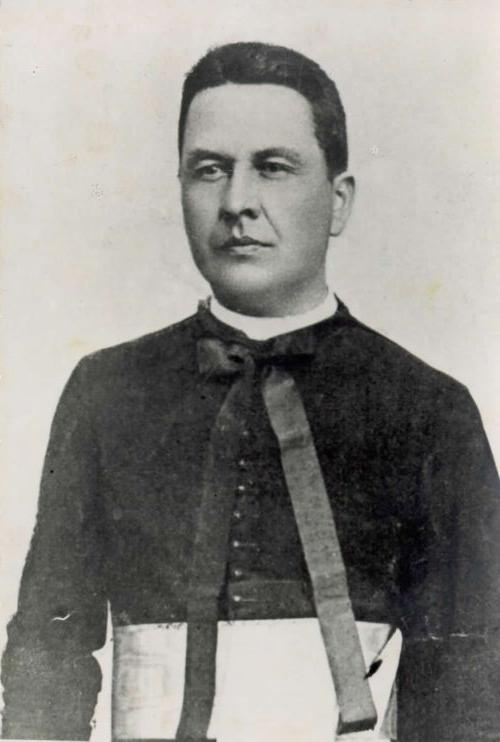 Franc Ivanoczy (1857-1913)